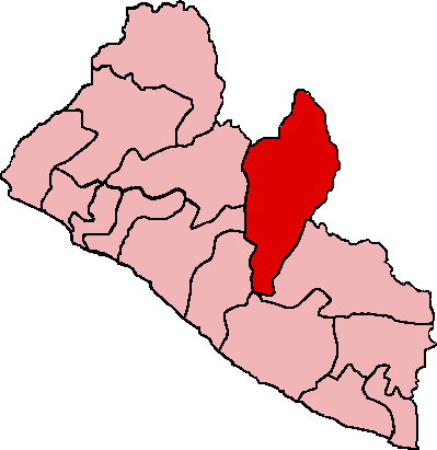 Map of Liberia showing Nimba County; created with the GIMP. Made by User:Acntx.